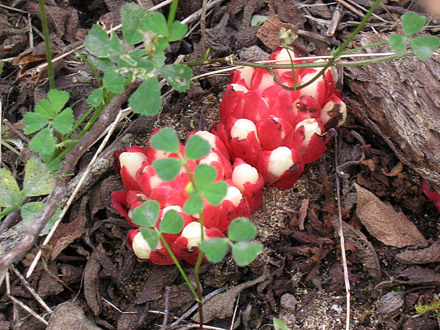 Cytinus ruber from Sardinia.